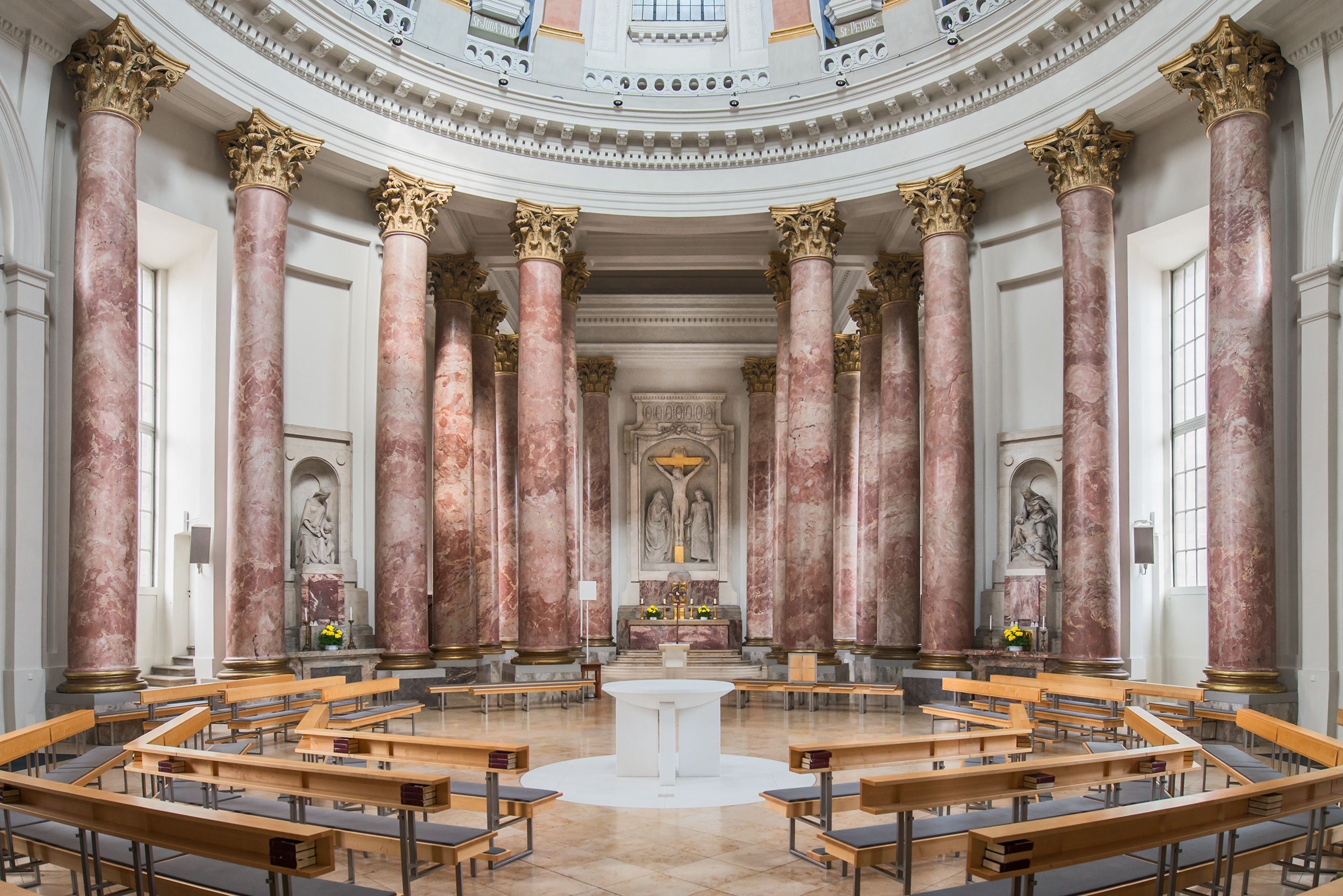 This is a photograph of an architectural monument.